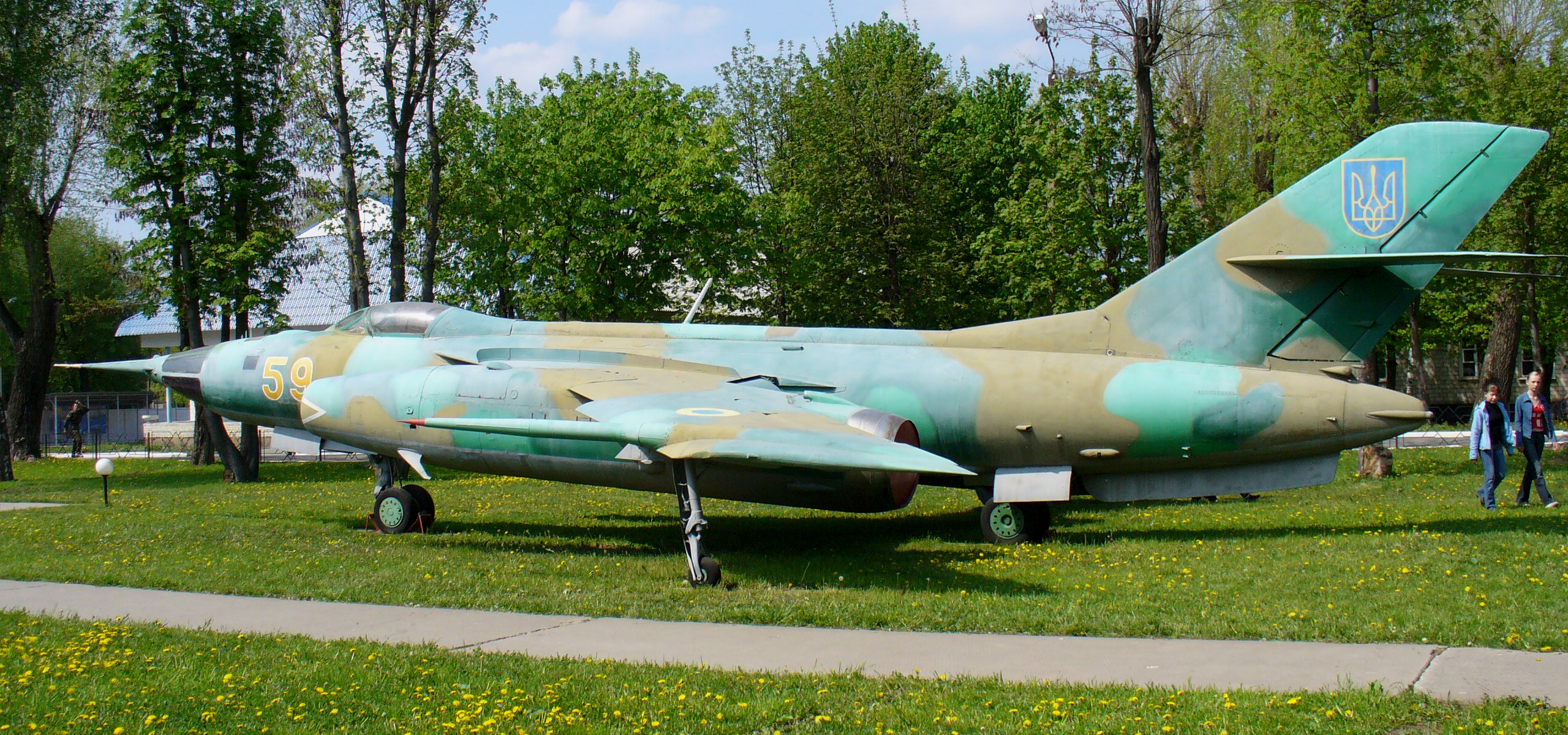 Yakovlev Yak-28PP (NATO reporting name - Brewer-E). Un-armed electronic countermeasures aircraft with an extensive EW(electronic warfare) suite in the bomb bay. Ukrainian Air Force Museum in Vinnitsa.